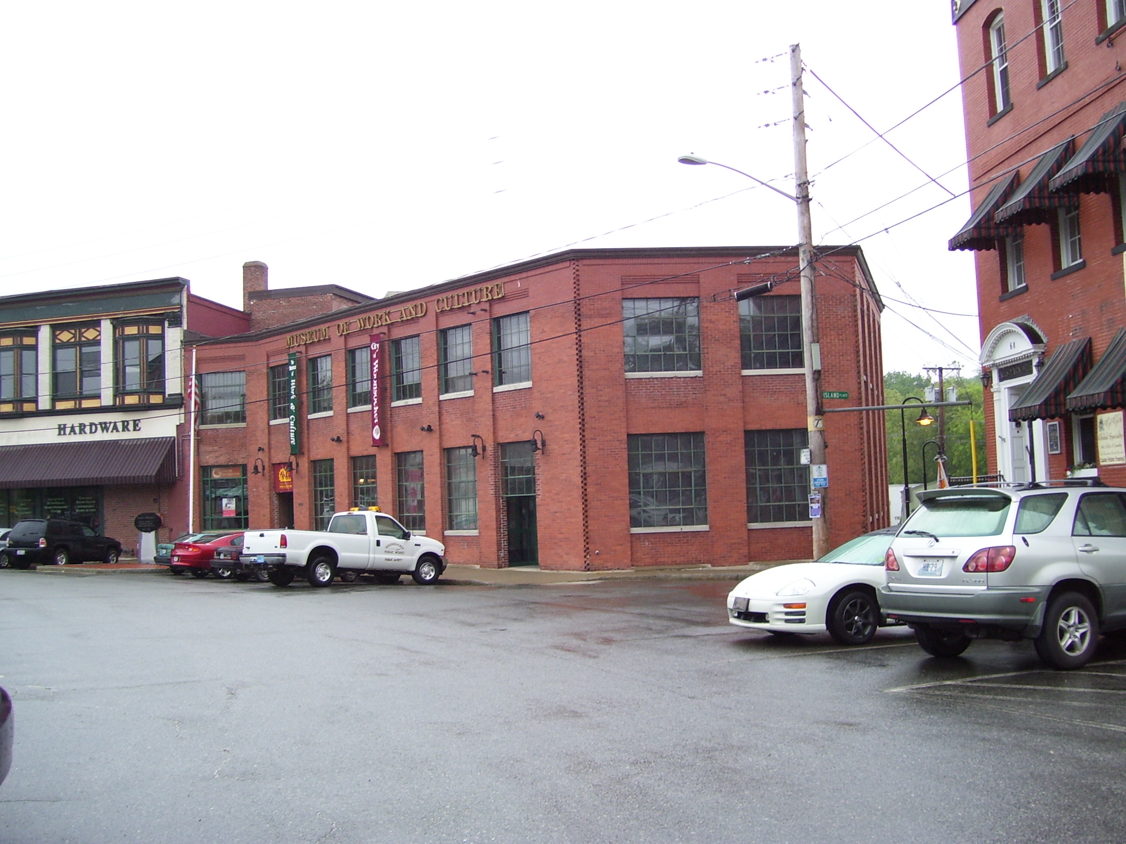 This is my 2008 photo of the Museum of Work and Culture in Woonsocket, Rhode Island.